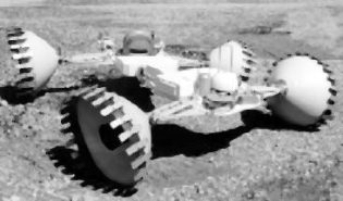 Lunar Sortie Vehicle (LSV), a 1971 North American propposal for lunar surface exploration.